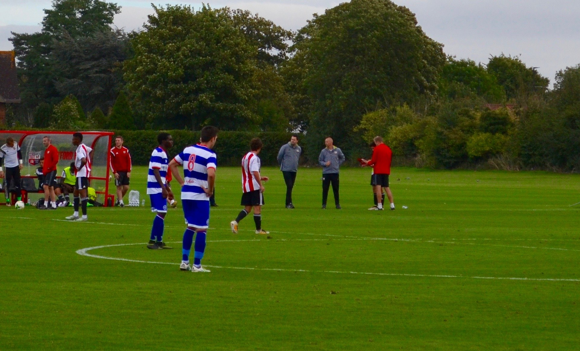 Football Player Ali Steinlein